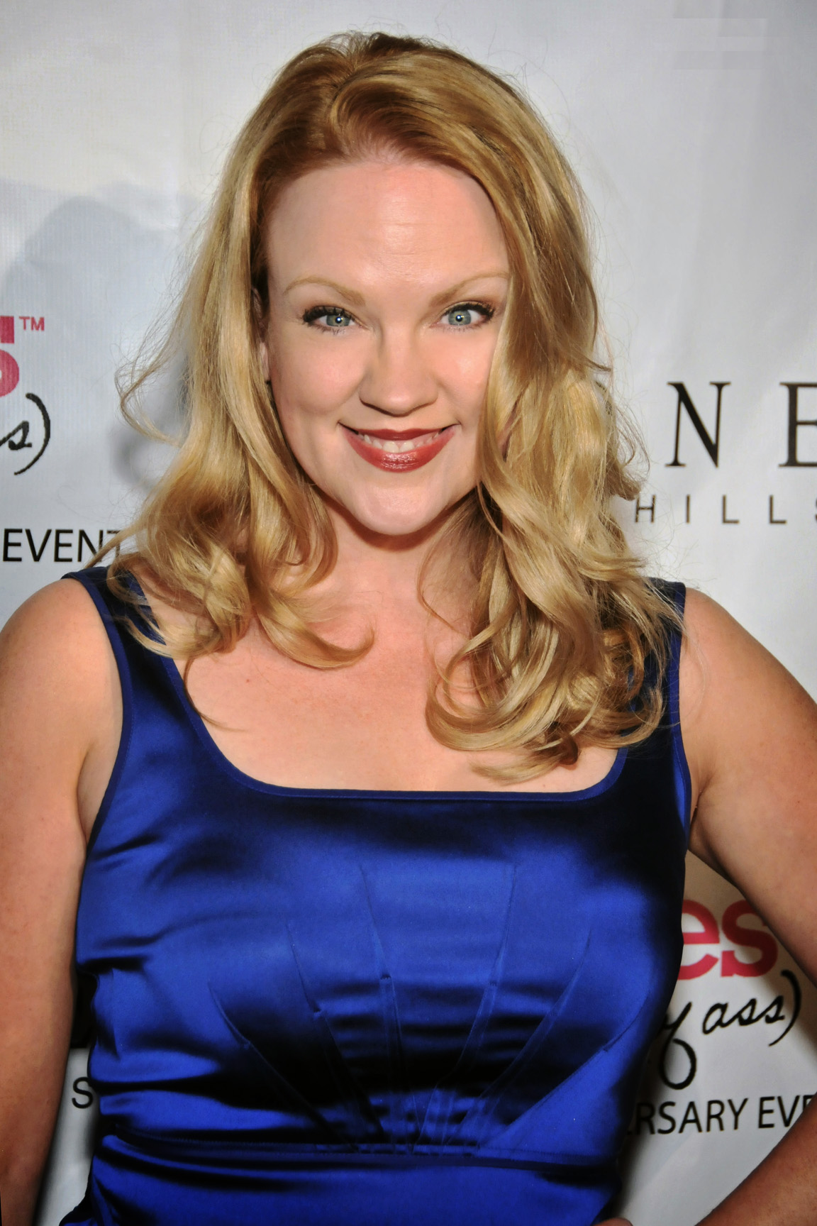 Ashley Palmer, Hollywood, California on March 28, 2013 - Photo by Glenn Francis of